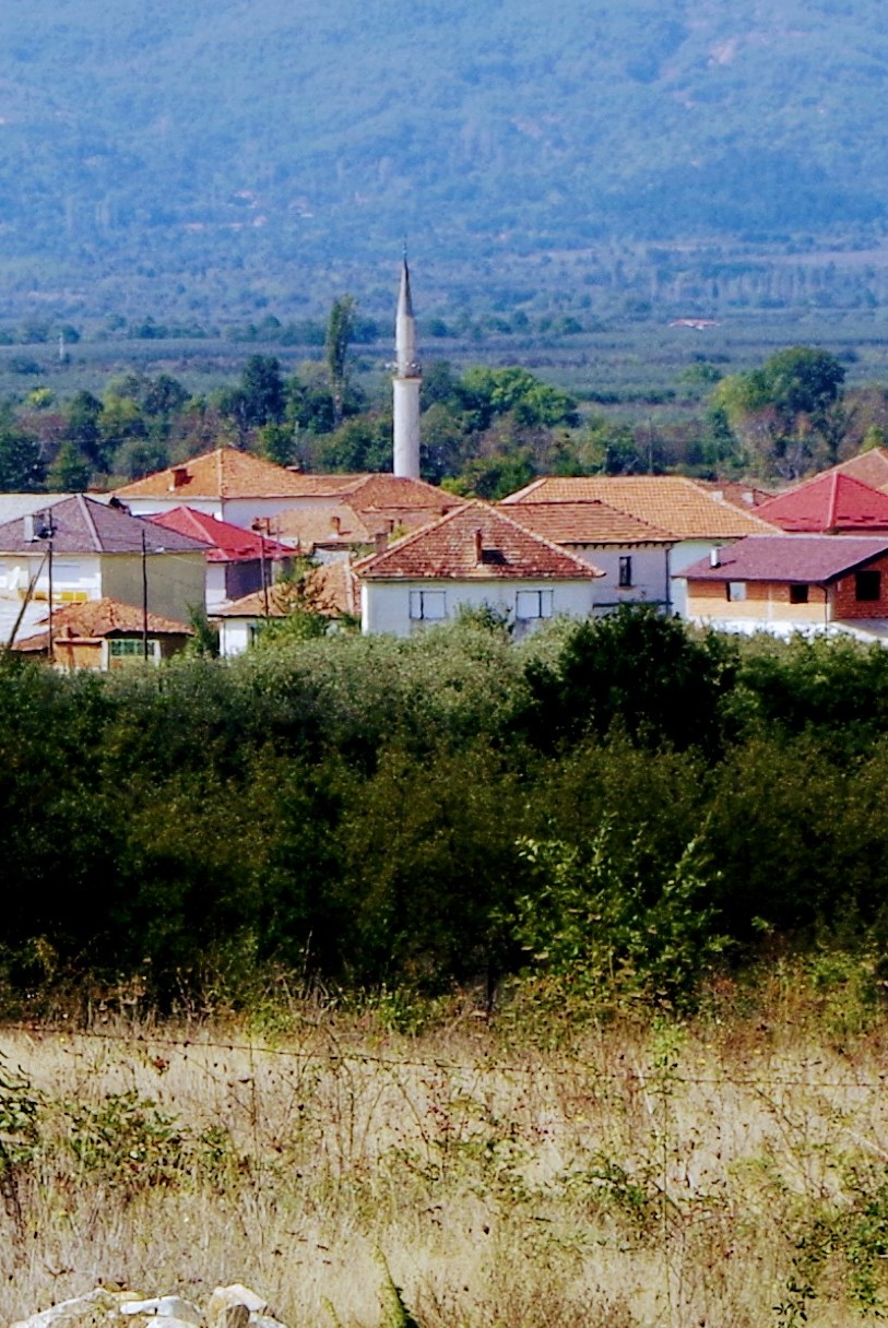 View of the village Gorna Bela Crkva